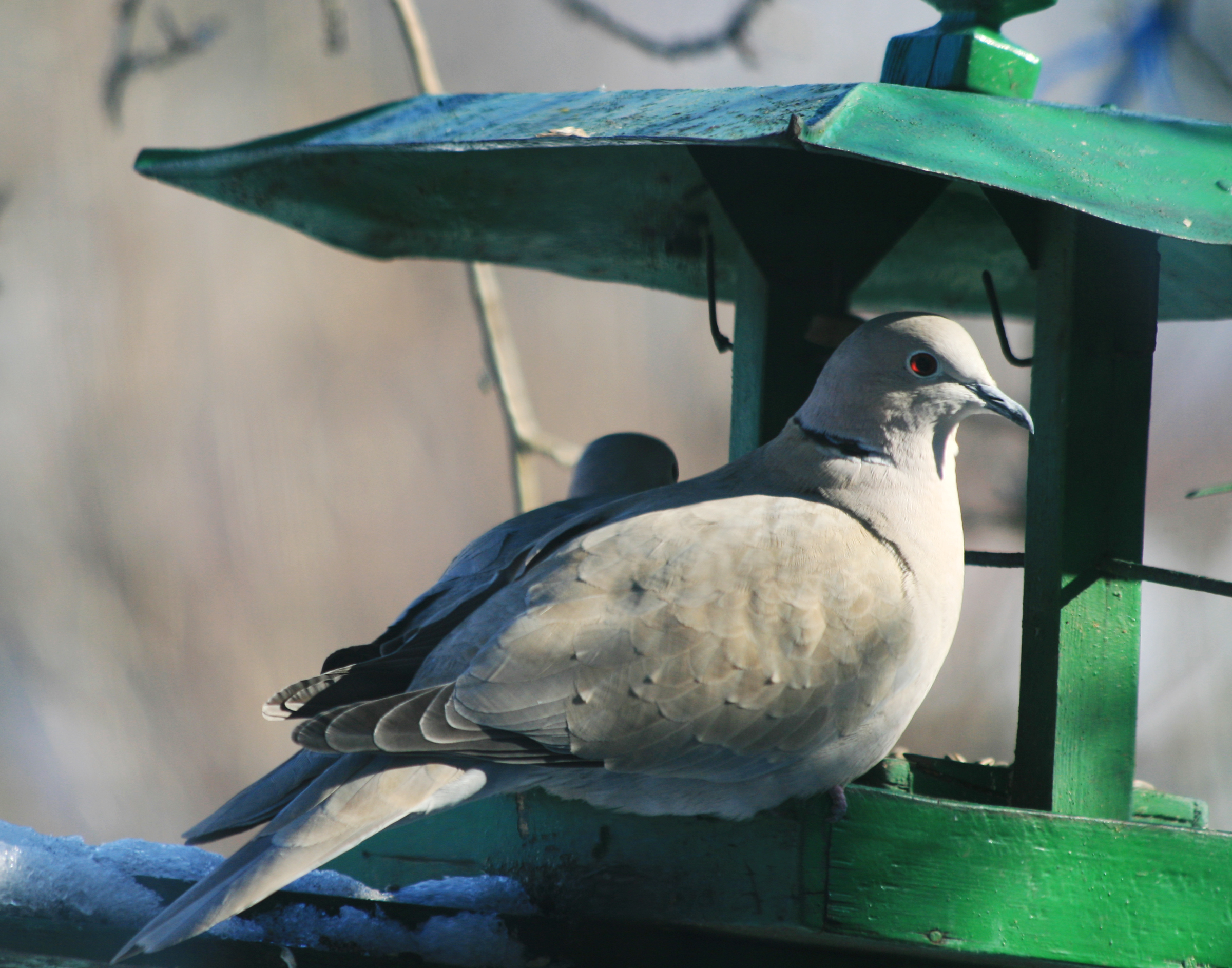 Eurasian Collared Dove, Jaroměř, East Bohemia